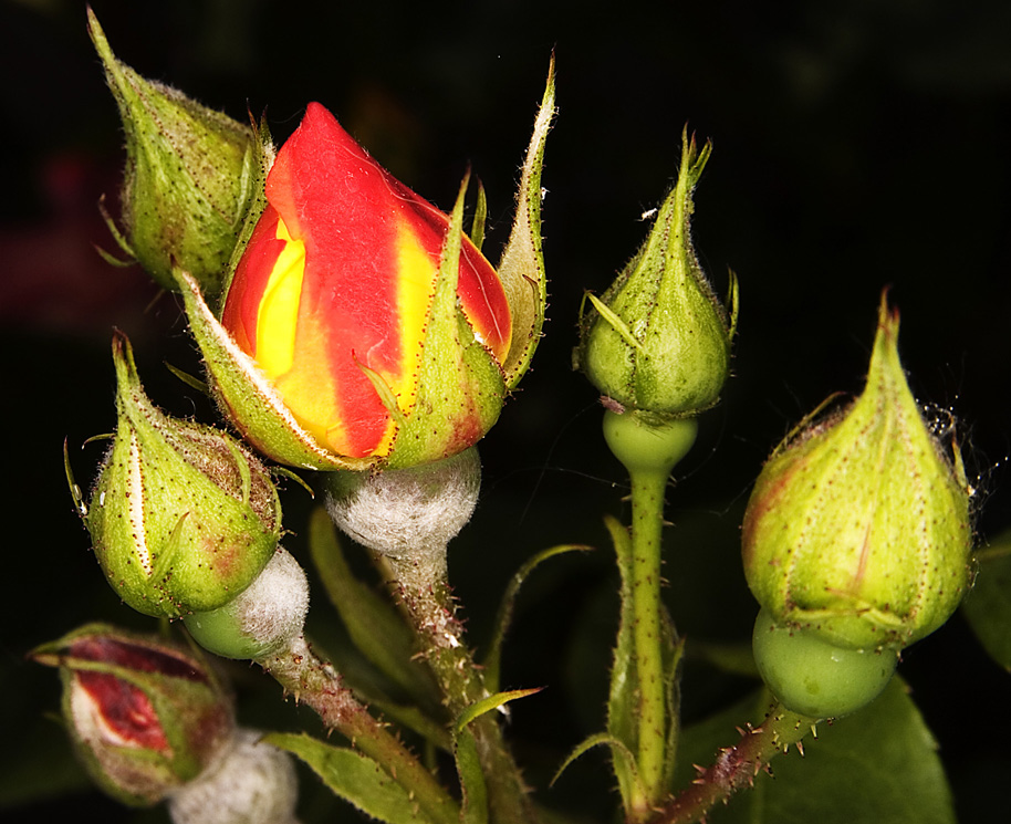 Rosebuds (macro shot with a Nikon D2H and a Sunpack DX R12 Ring Flash)